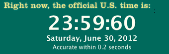 The UTC clock on during the 30 June 2012 leap second.